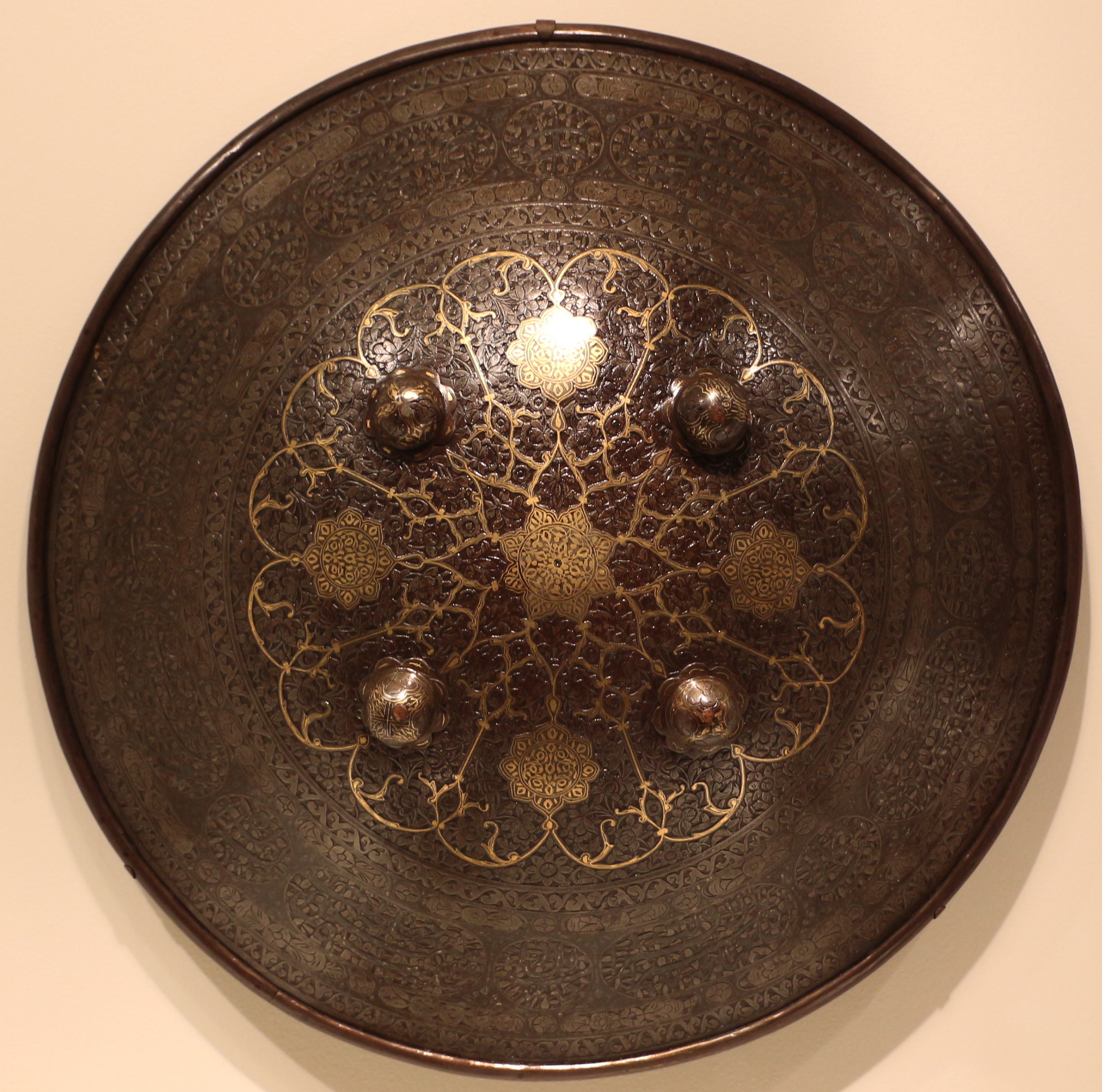 Asian art in the Indianapolis Museum of Art